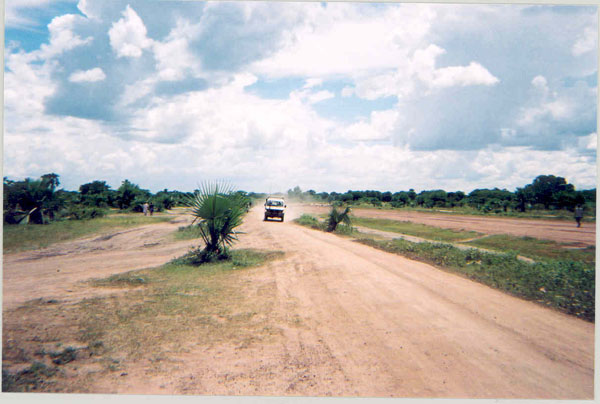 Rumbek airstrip, South Sudan: A road alongside the runway. Two pieces of unexploded ordnance were cleared from the area to the left of the road and the immediate foreground. Besides enabling the safe expansion of the runway, the existing aircraft apron will be widened so that a large four-engine aircraft may safely turn around after it has landed.